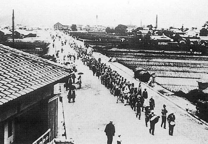 Showa-dori in Niihama, Ehime pref., Japan.